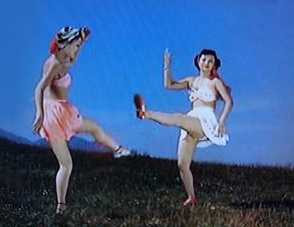 A scene from the motion picture Karumen Kokyo-ni Kaeru (1951, aka Carmen Comes Home ) featuring Hideko Takamine (1924– ) and Toshiko Kobayashi (1932- ).